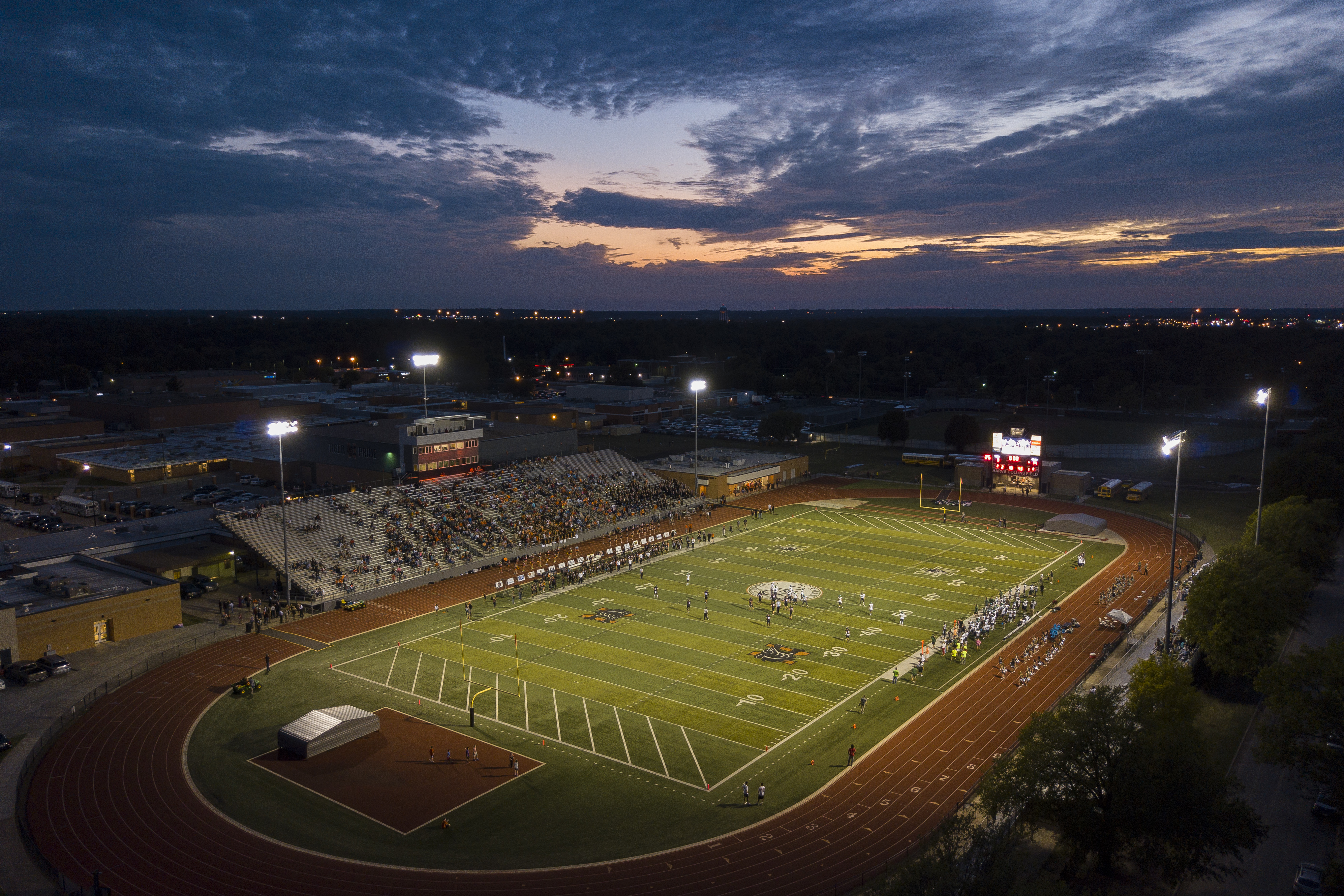 The Norman High School football field and track. The Norman Tigers playing the Edmond Santa Fe Wolves at Homecoming on September 29, 2017. Left in the background is Norman High School.